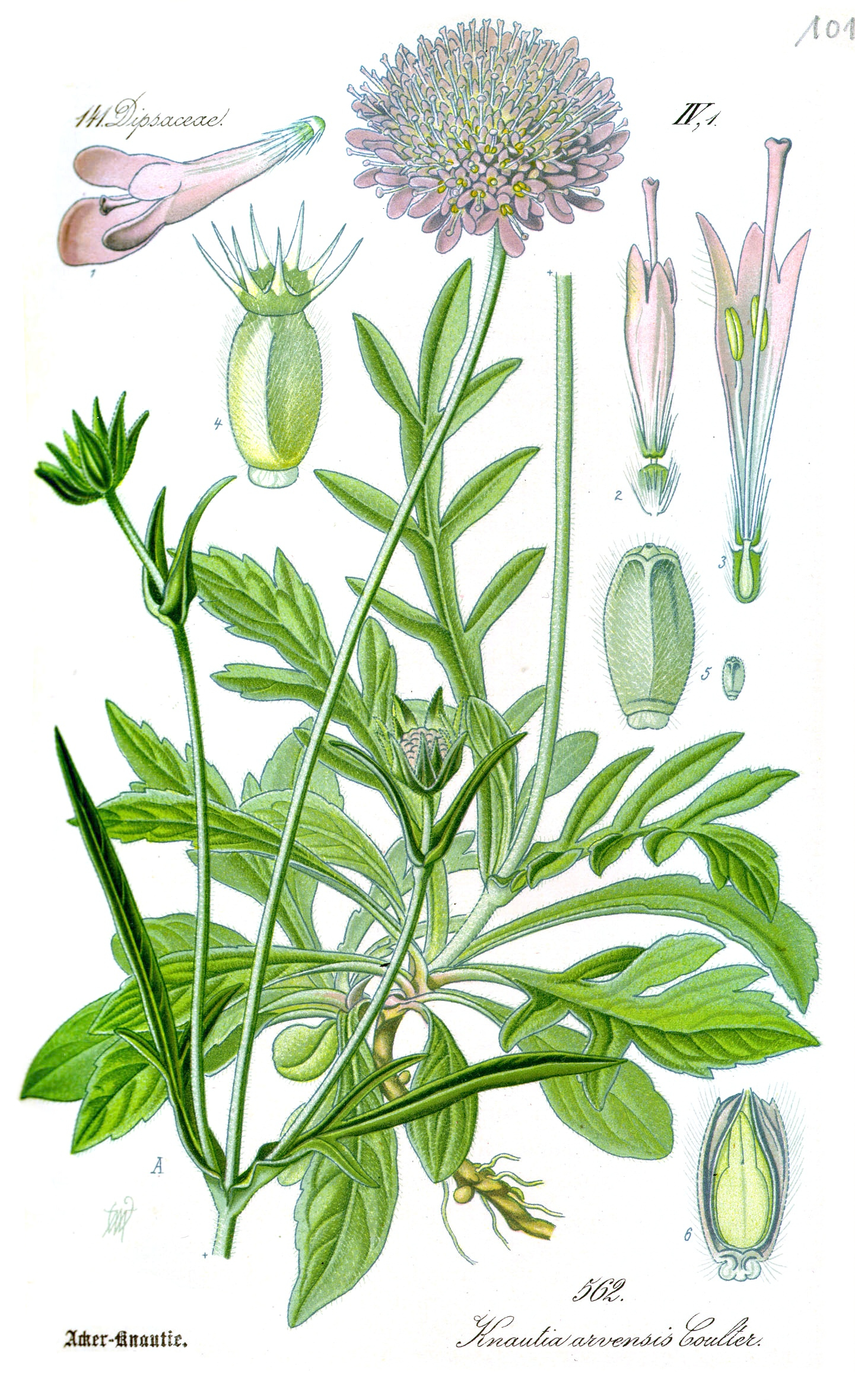 Name Knautia arvensis Family Dipsacaceae